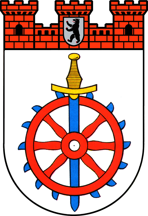 Coat of arms of Weißensee, a former Boroughs of Berlin.